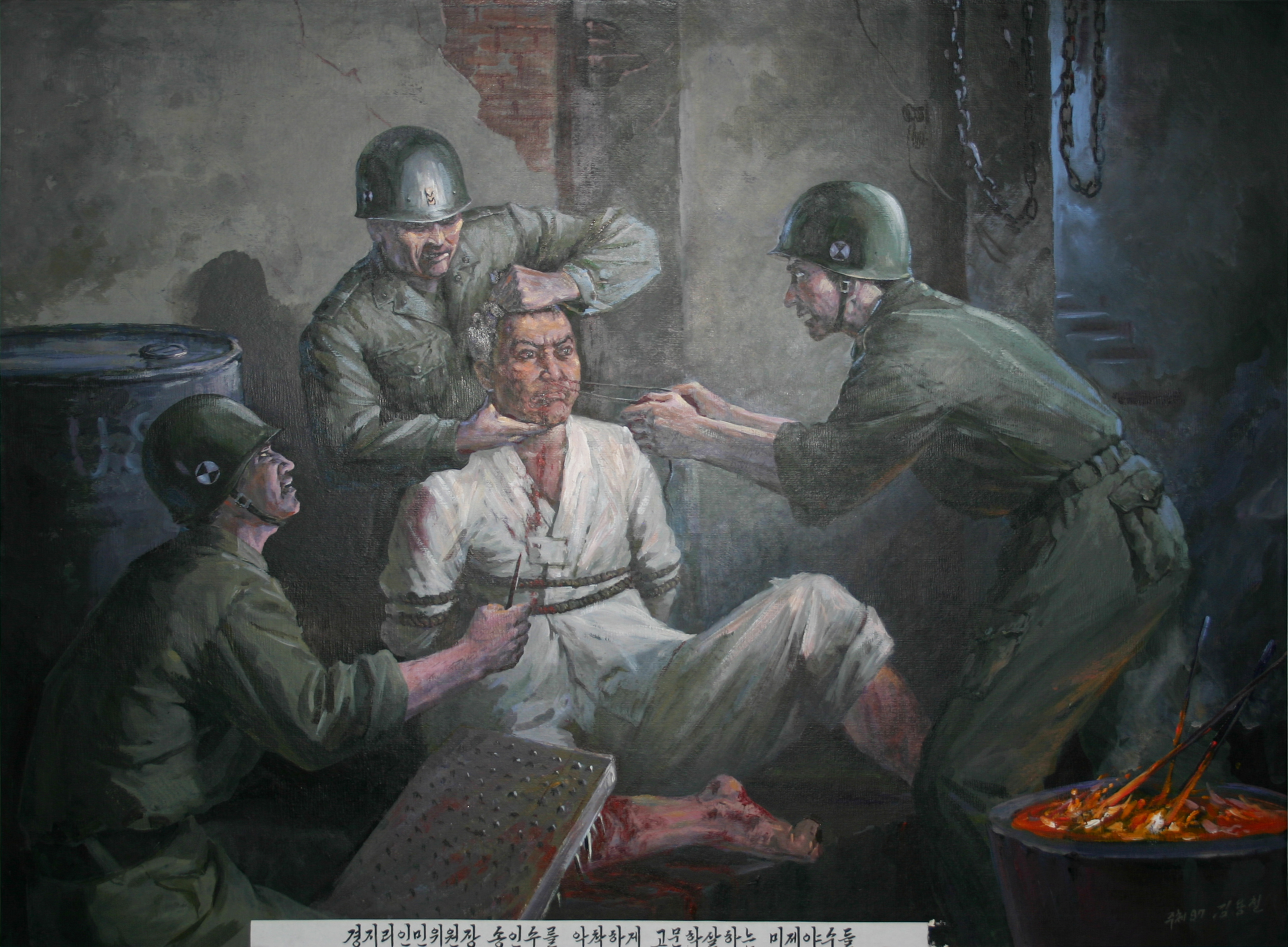 Painting in museum DPRK.